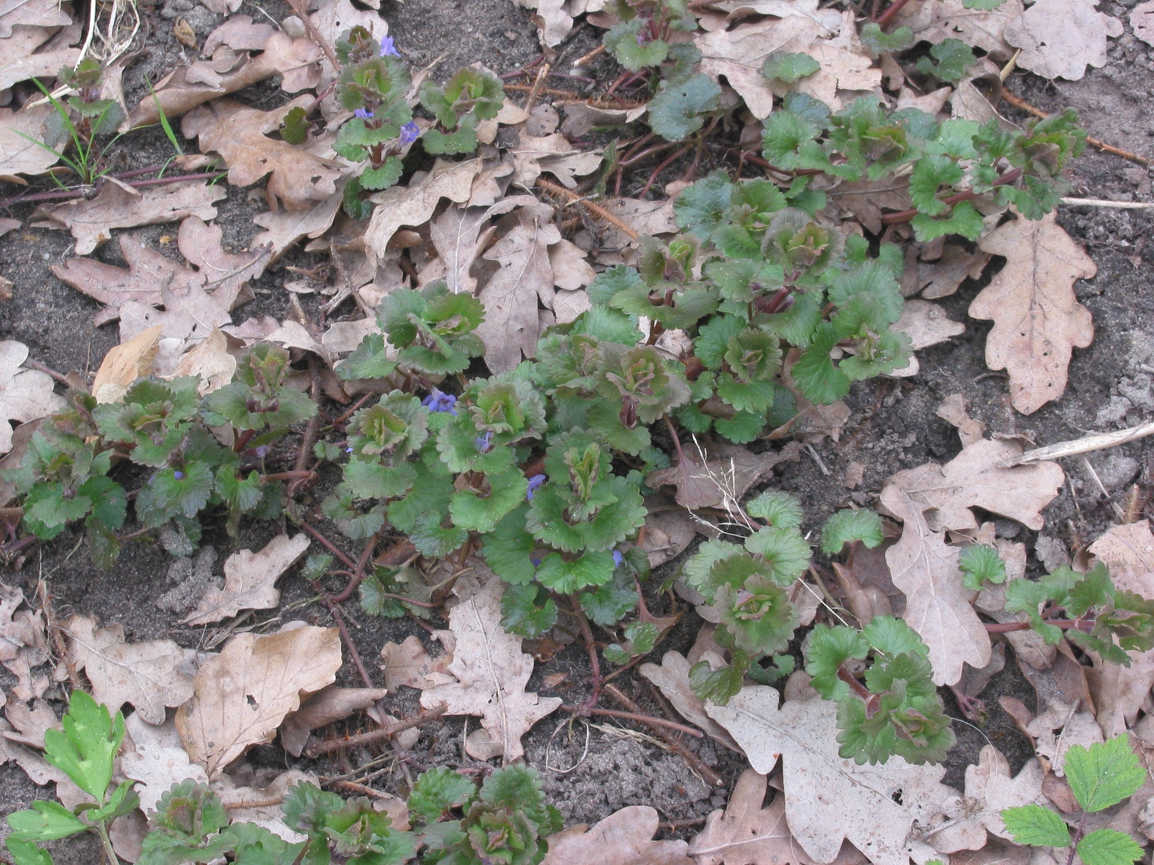 Glechoma hederacea plants